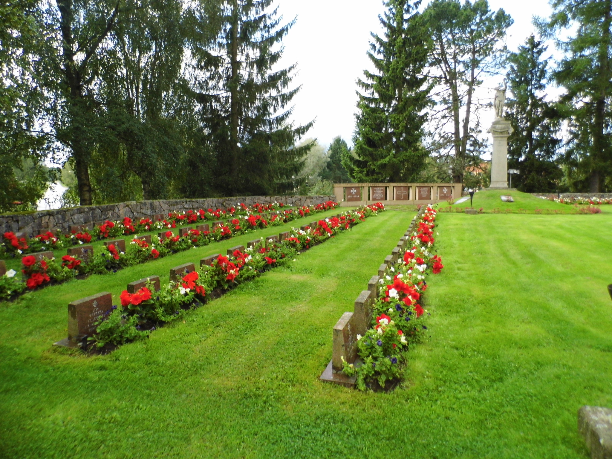 Military cemetary at church in Kannus, Finland